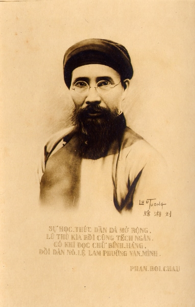 Memorial card of Phan Boi Chau (1867 - 1940 ) Vietnamese revolutionary